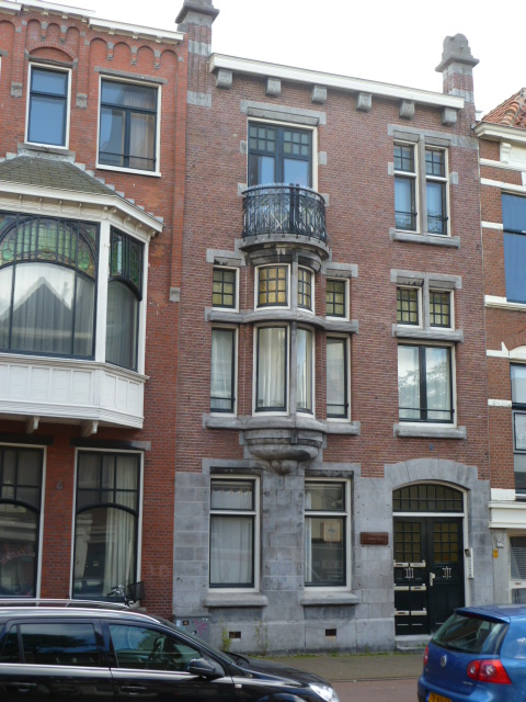 The Hague (the Netherlands), Stille Veerkade 20 former Jewish orphanage (1849-1880)